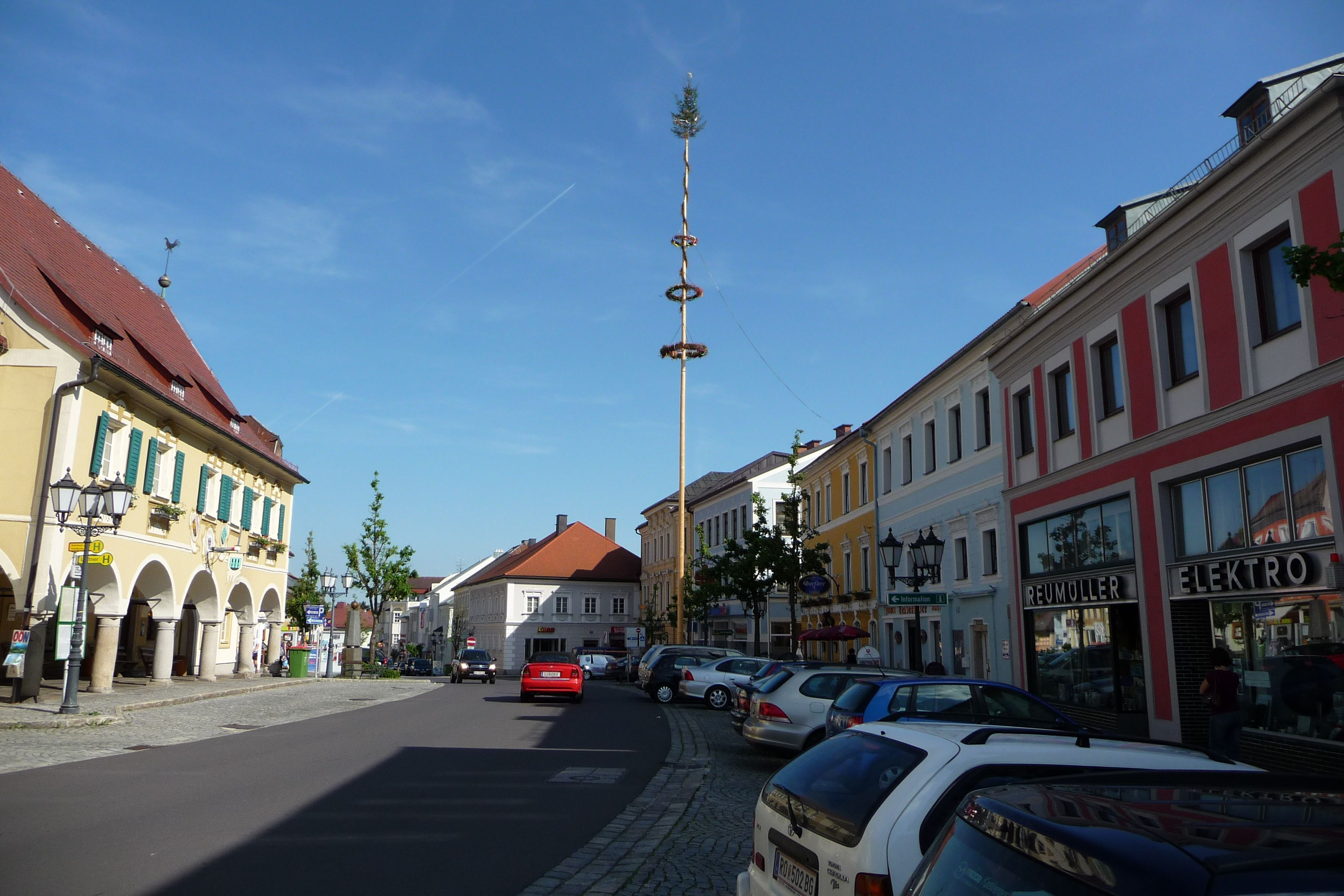 Main square in Rohrbach Upper Austria